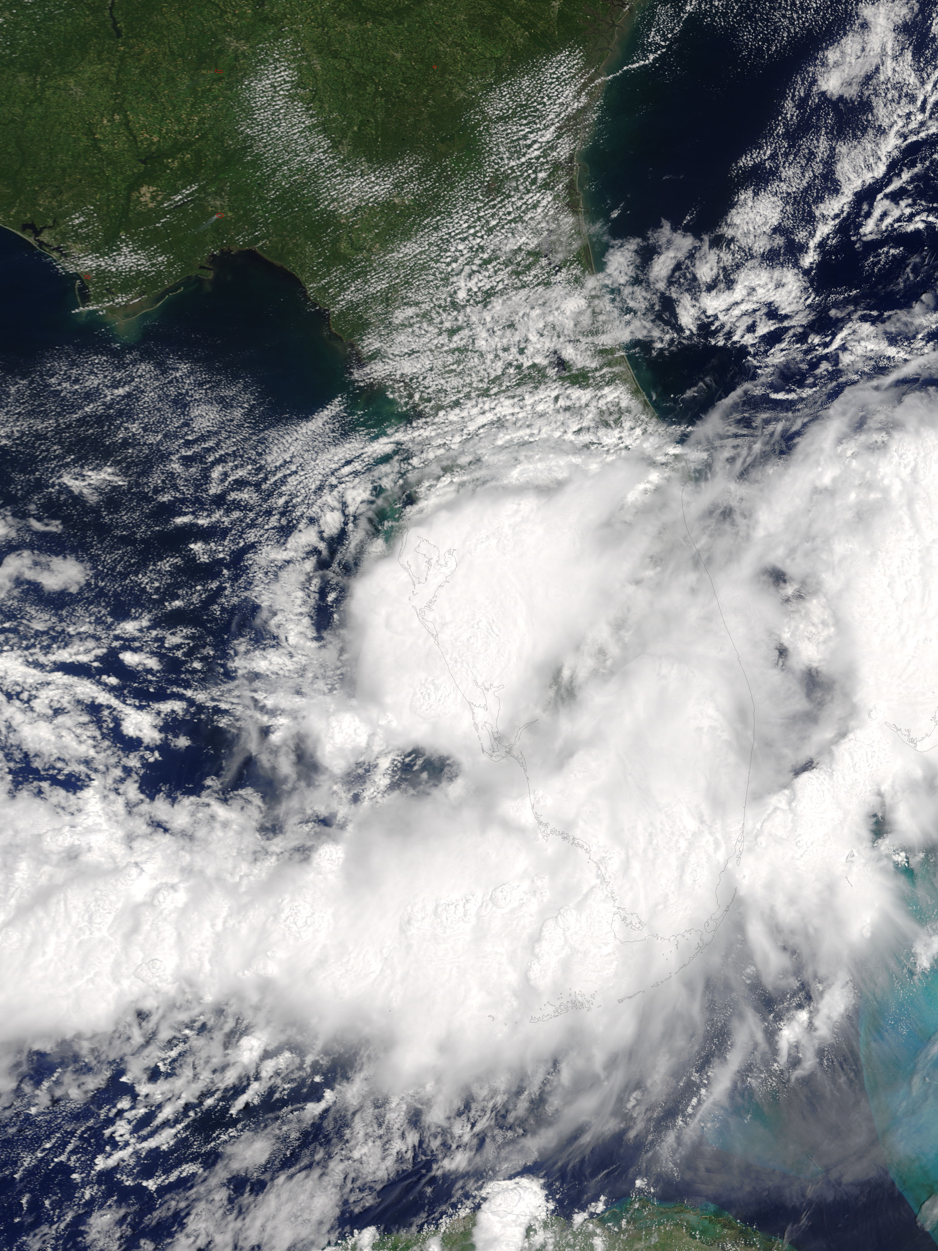 Tropical Storm Emily (06L) over Florida